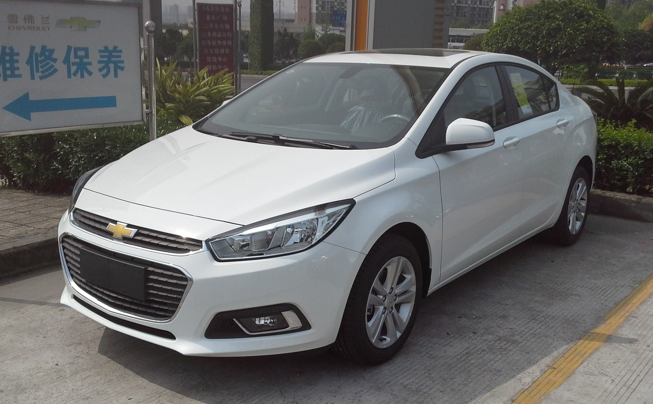 Chevrolet Cruze J400 CN photographed in Chongqing, China.